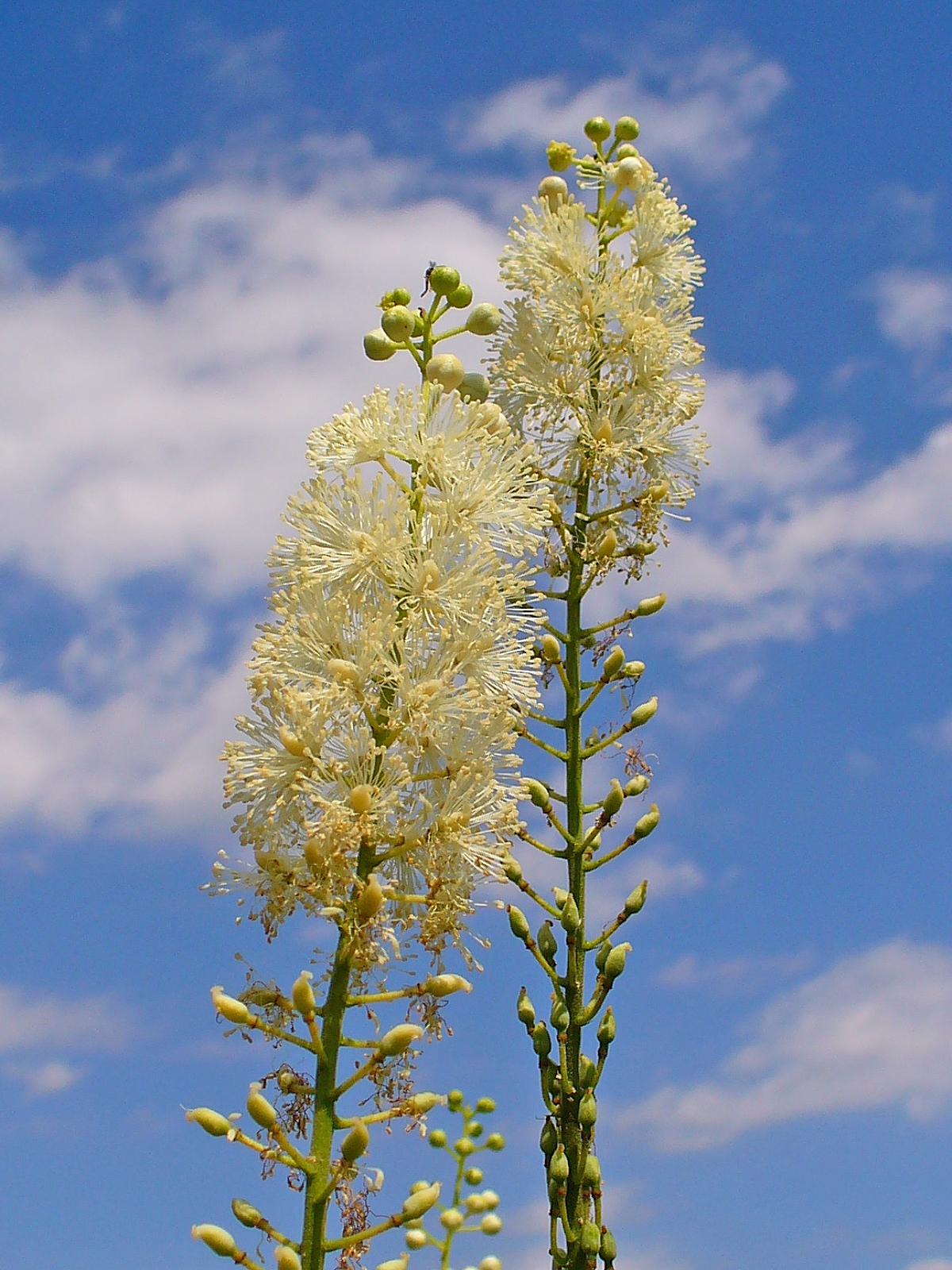 Actaea racemosa, Ranunculaceae, Black Cohosh, Black Bugbane or Black Snakeroot, Fairy Candle, inflorescence. Stutensee, Germany.